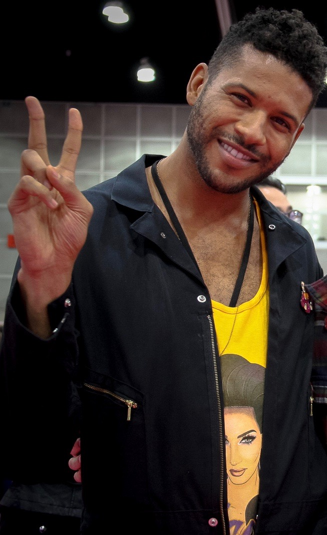 Jeffrey Bowyer-Chapman at RuPaul's DragCon 2019